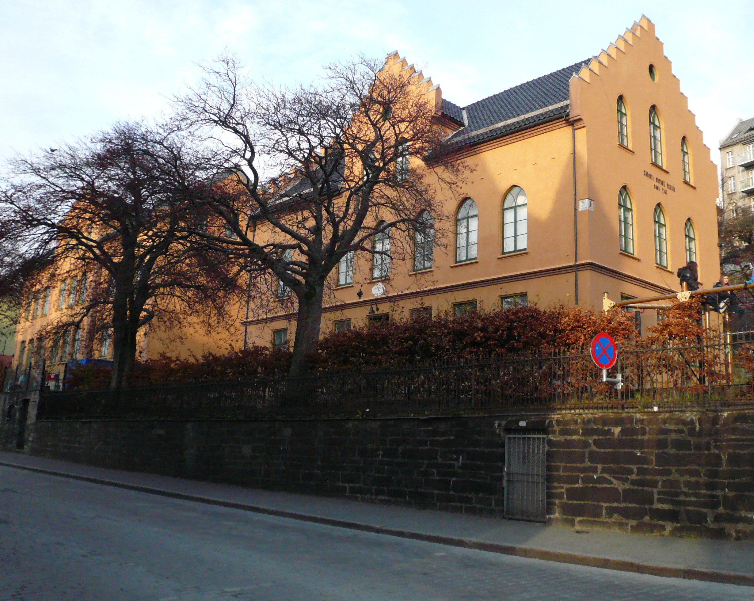 Christi Krybbe skoler, Bergen, Norway